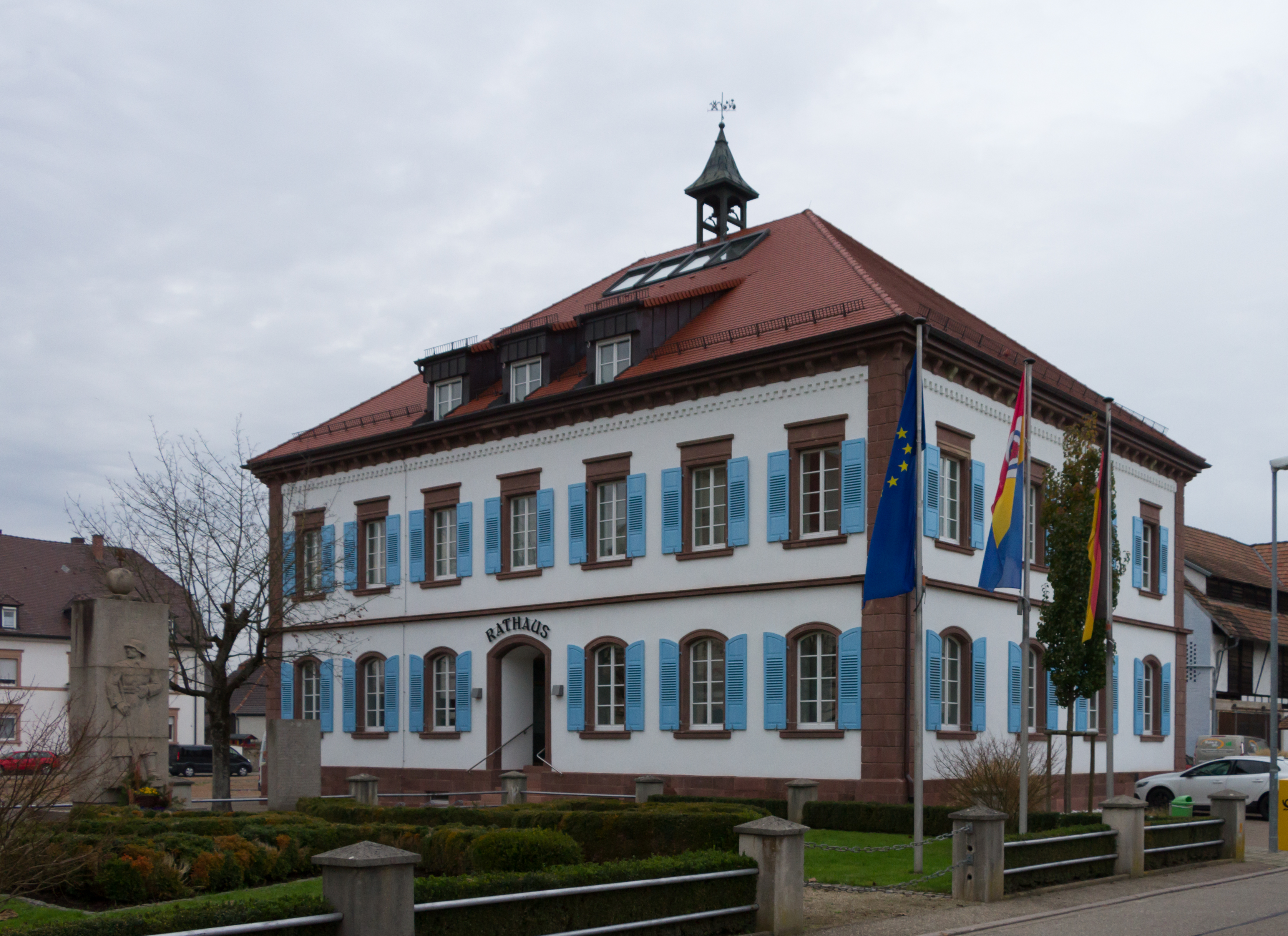 The town hall of Ringsheim